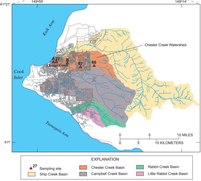 This image depicts the majors rivers and streams in Anchorage, Alaska and their drainages